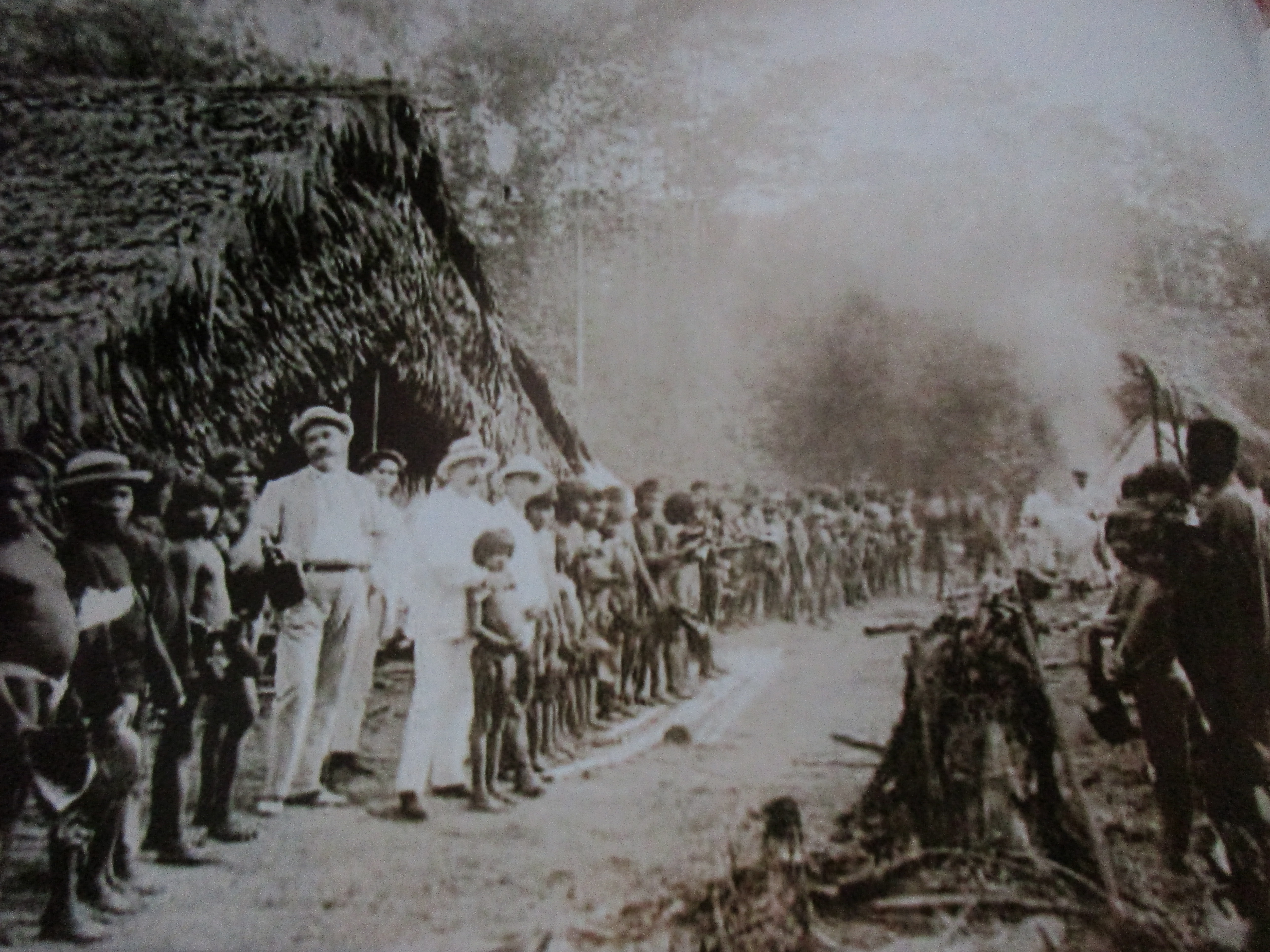 Peruvian Amazon Cauchy